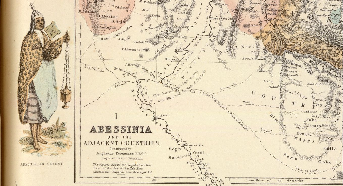 Portion of A. Fullarton map "Abessinia and the Adjacent Countries" from the atlas "Royal Illustrated Atlas of Modern Geography" published in Edinburgh 1864-1872